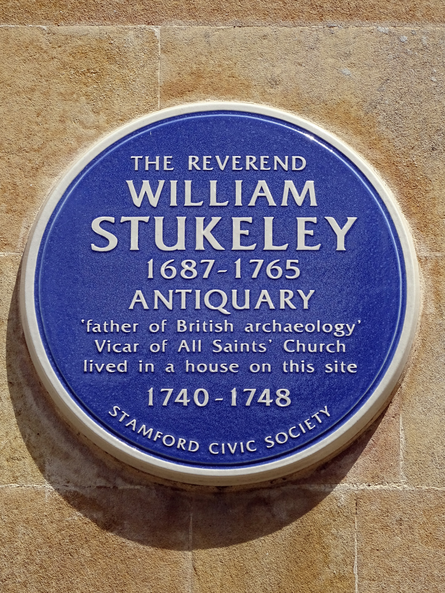 William Stukeley blue plaque erected by The Stamford Civic Society on 7th November 2010 at Barn Hill Stamford Lincolnshire PE9 2AE